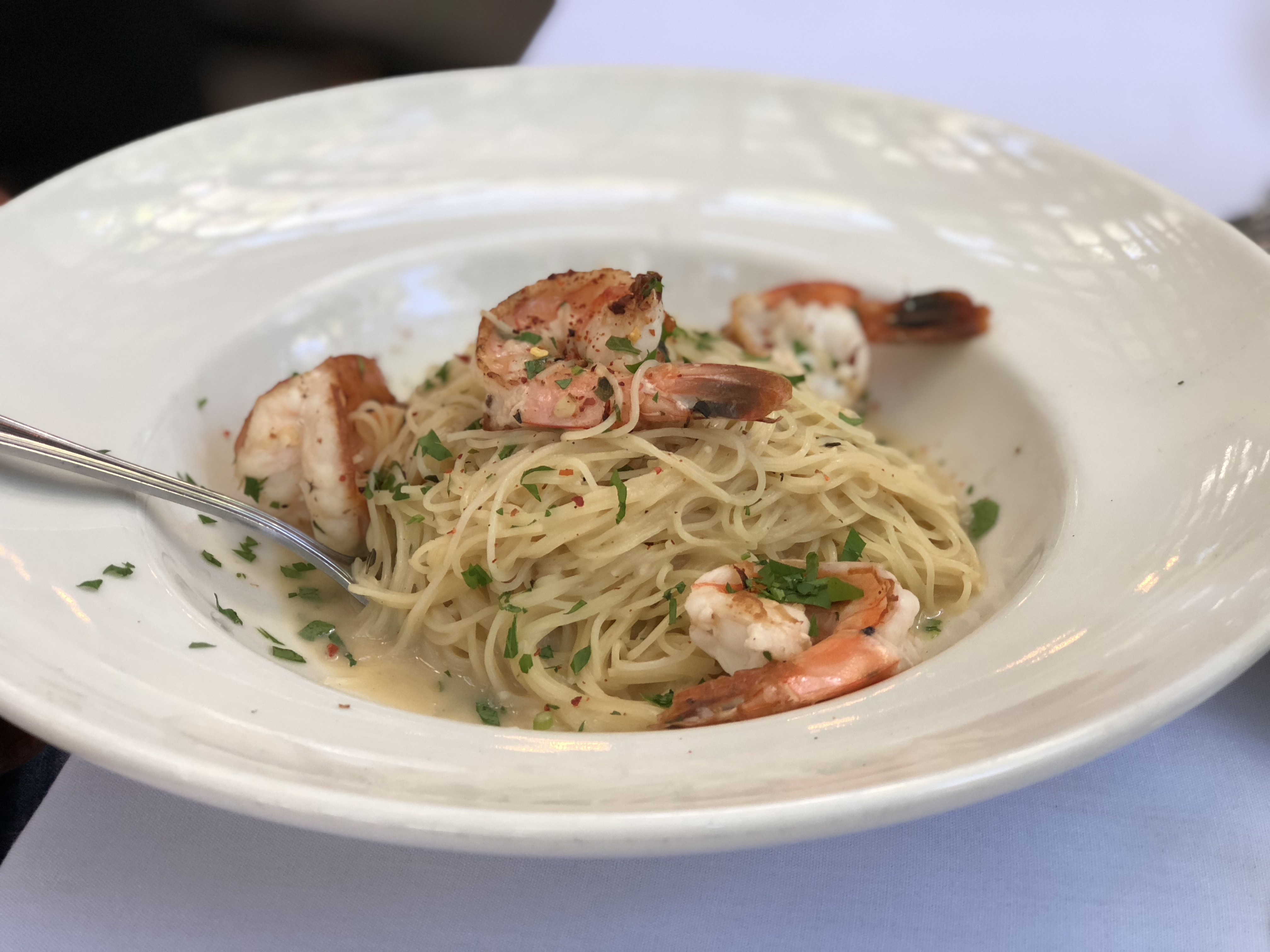 Capellini Alla John D. Newman (wild prawns, garlic, white wine, extra virgin olive oil, sautéed and tossed with angel hair pasta & red pepper flakes) at Umbria Glen Ellen in Glen Ellen, California